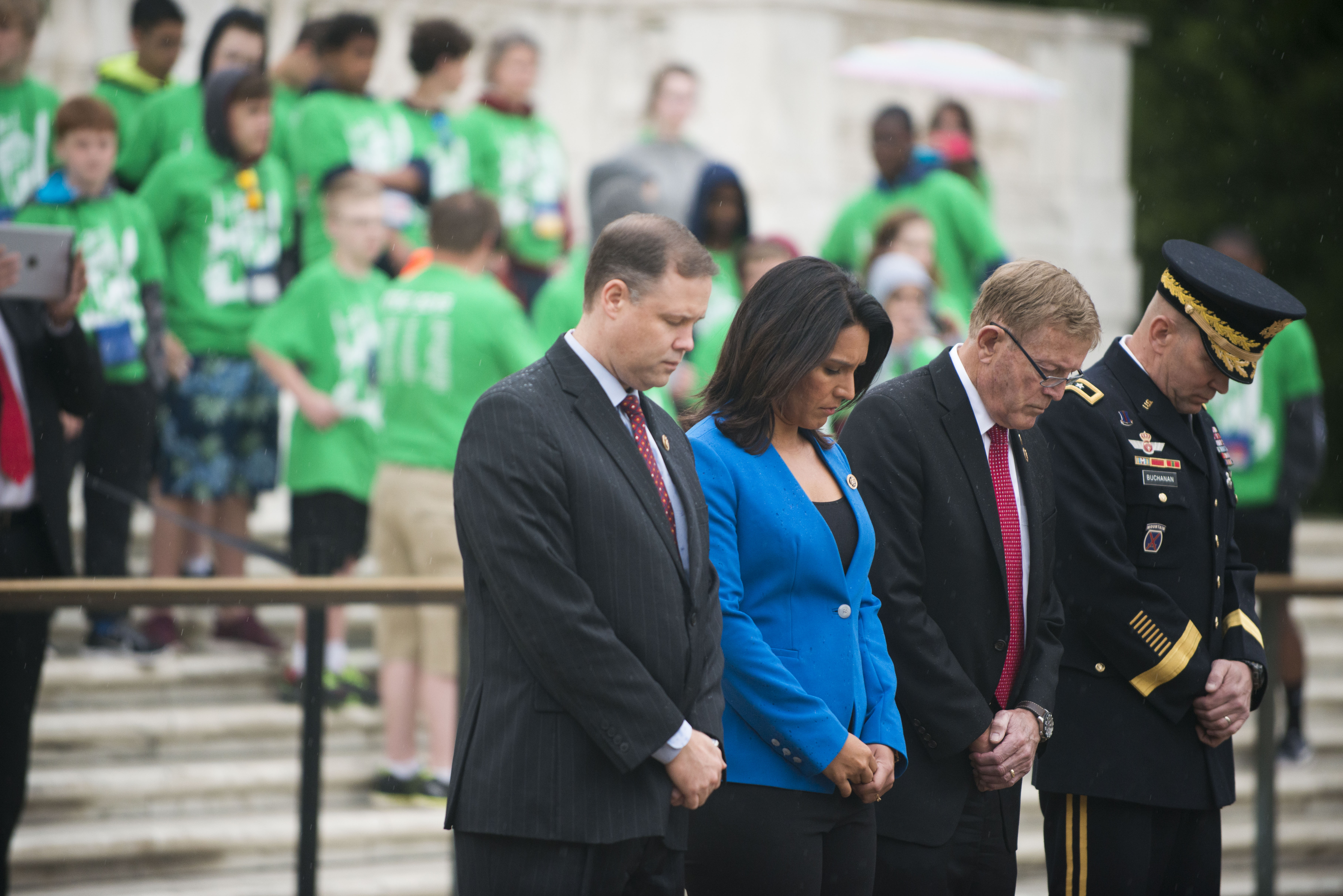 From the left Reps. Jim Bridenstine of Oklahoma’s First District, Tulsi Gabbard of Hawaii Second District and Paul Cook of California’s Eighth District, representing the sophomore class of the 114th Congress, and escorted by Joint Force Headquarters-National Capital Region and the U.S. Army Military District of Washington Commanding General Maj. Gen. Jeffrey S. Buchanan, bow their heads after laying a wreath at the Tomb of the Unknown Soldier in Arlington National Cemetery, May 21, 2015, in Arlington, Va. Dignitaries from all over the world pay respects to those buried at Arlington National Cemetery in more than 3,000 ceremonies each year. (U.S. Army photo by Rachel Larue/Released)